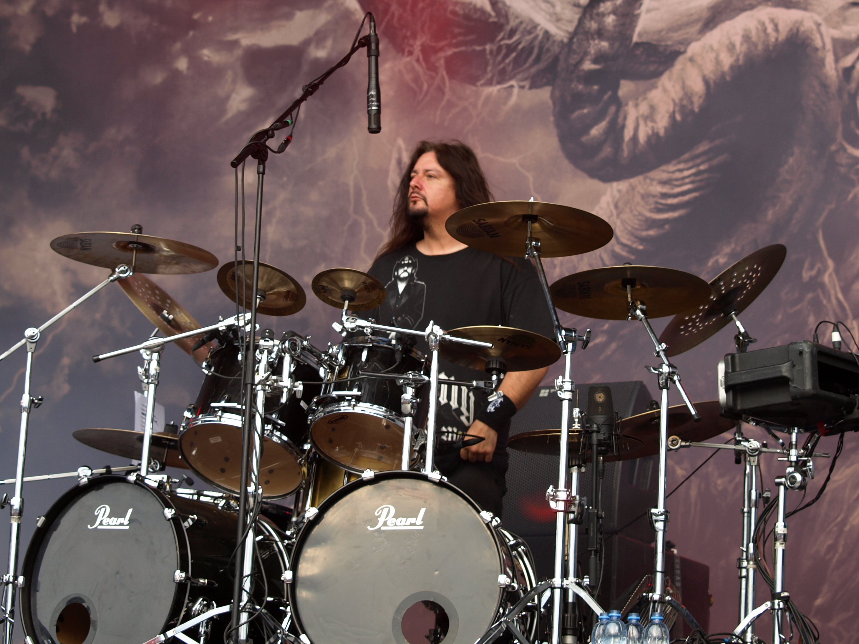 US-American thrash metal band Testament live at Tuska Open Air 2013